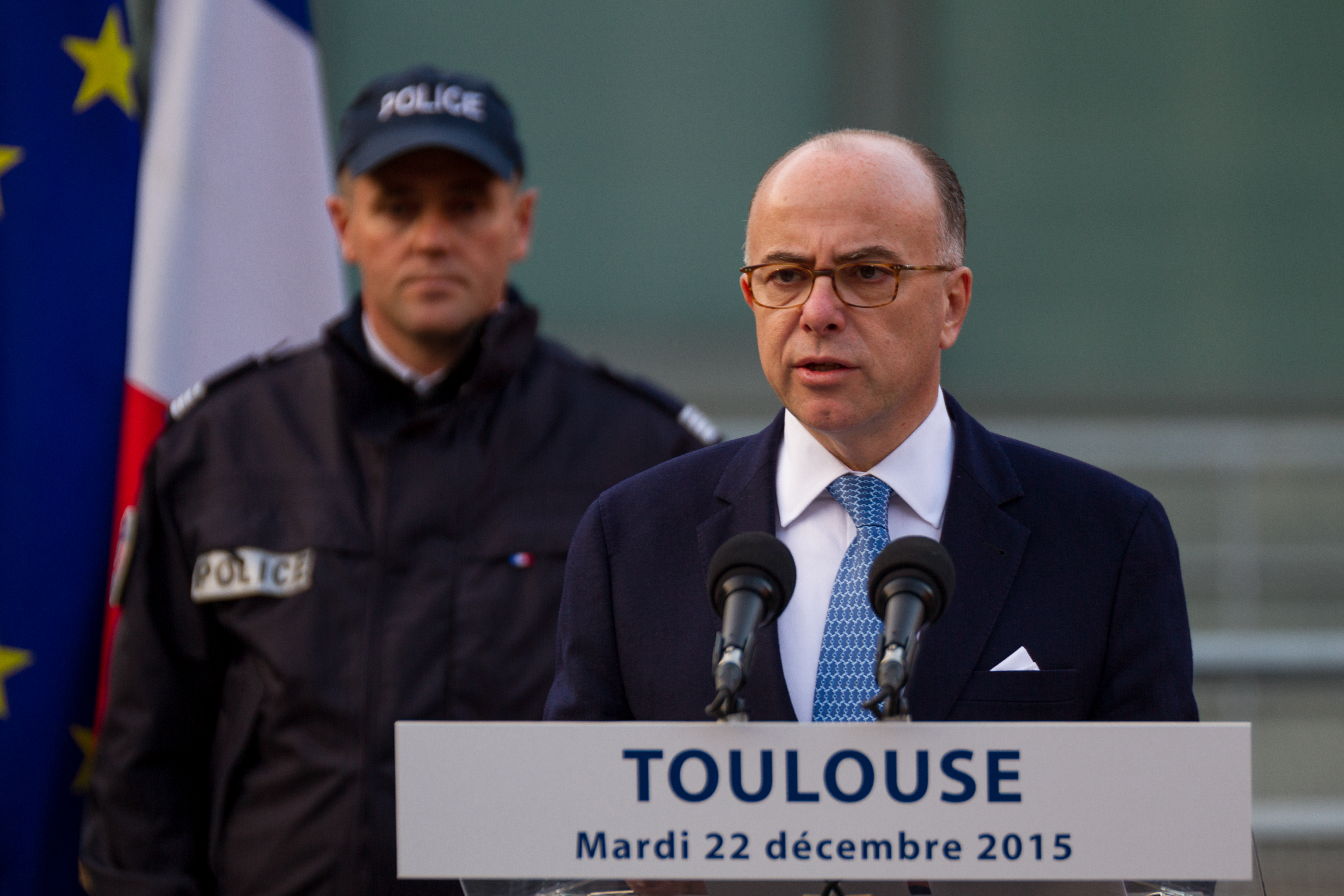 French Interior minister Bernard Cazeneuve delivers a speech during a visit at a Police station in Toulouse.